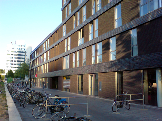 The district Bisschoppen in Utrecht, the Netherlands.